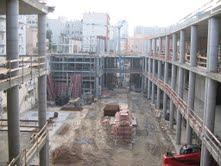 Construction of Mediateca del Mediterraneo in Cagliari, Sardinia, Italy